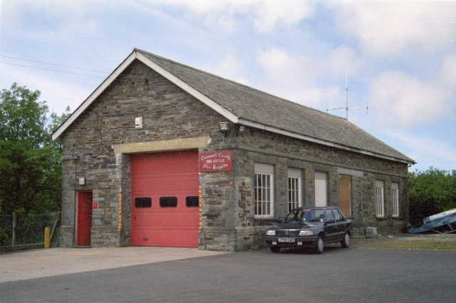 Delabole Fire Station. Delabole Fire Station, Pengelly, Delabole, Cornwall. Delabole is famous for slate, and the fire station is very close to the slate quarry.